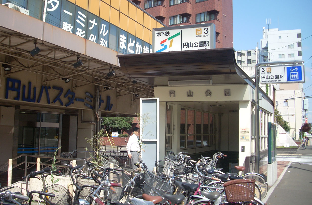 Sapporo subway Maruyama koen station, Chuo-ku, Sapporo, Hokkaido, Japan